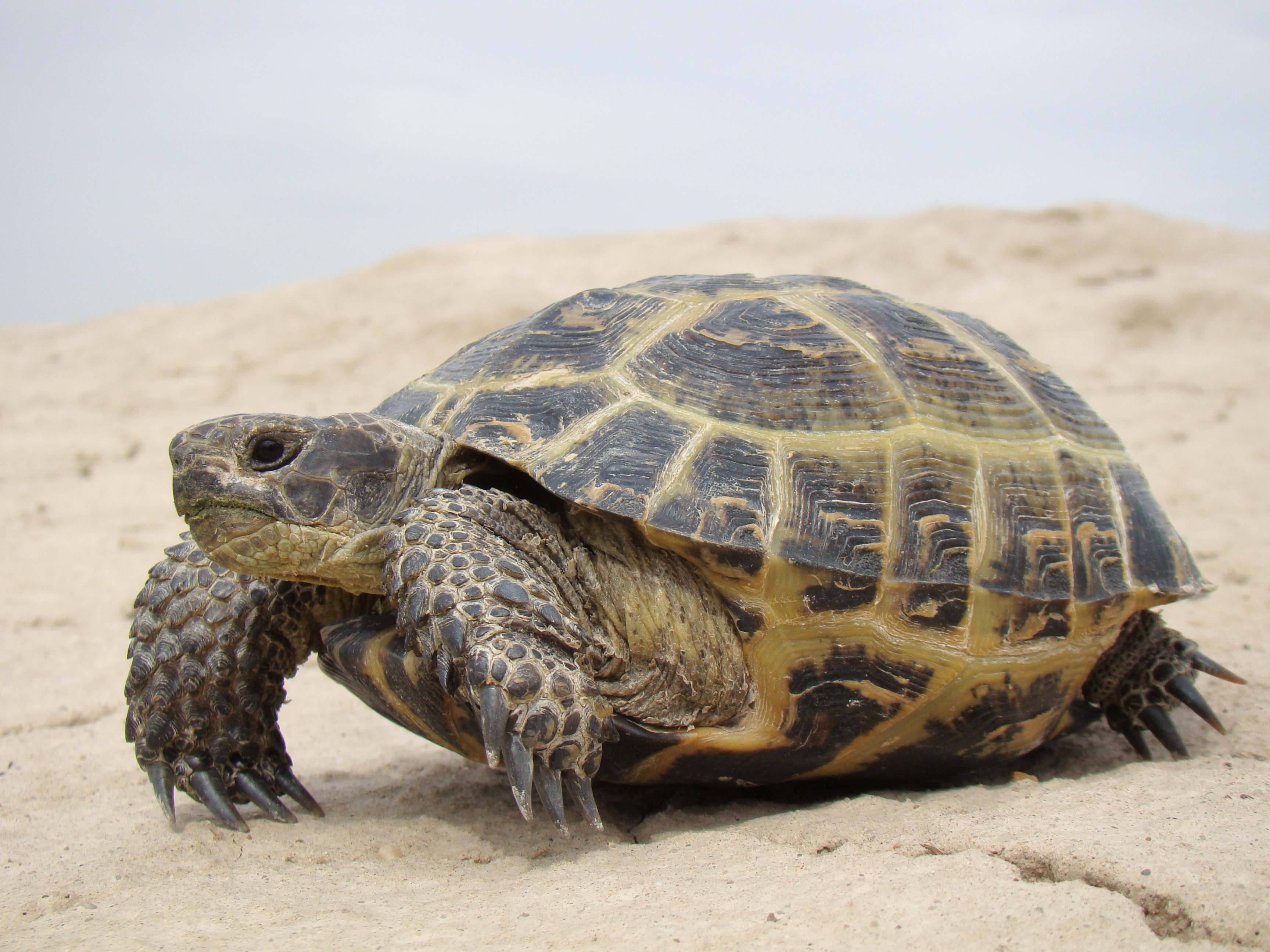 Testudo horsfieldii (Agrionemys horsfieldii). Baikonur, Kazakhstan.